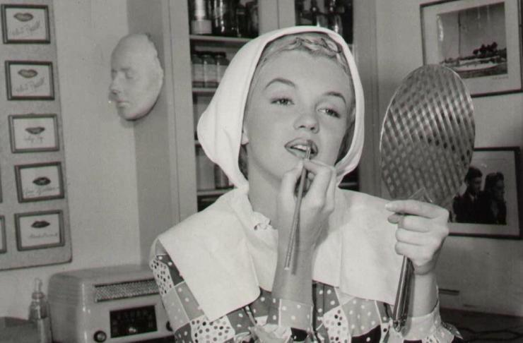 Promotion photo: Marilyn Monroe, ingenue lead in Columbia's Ladies of the Chorus demonstrates the proper way to make up the lips....